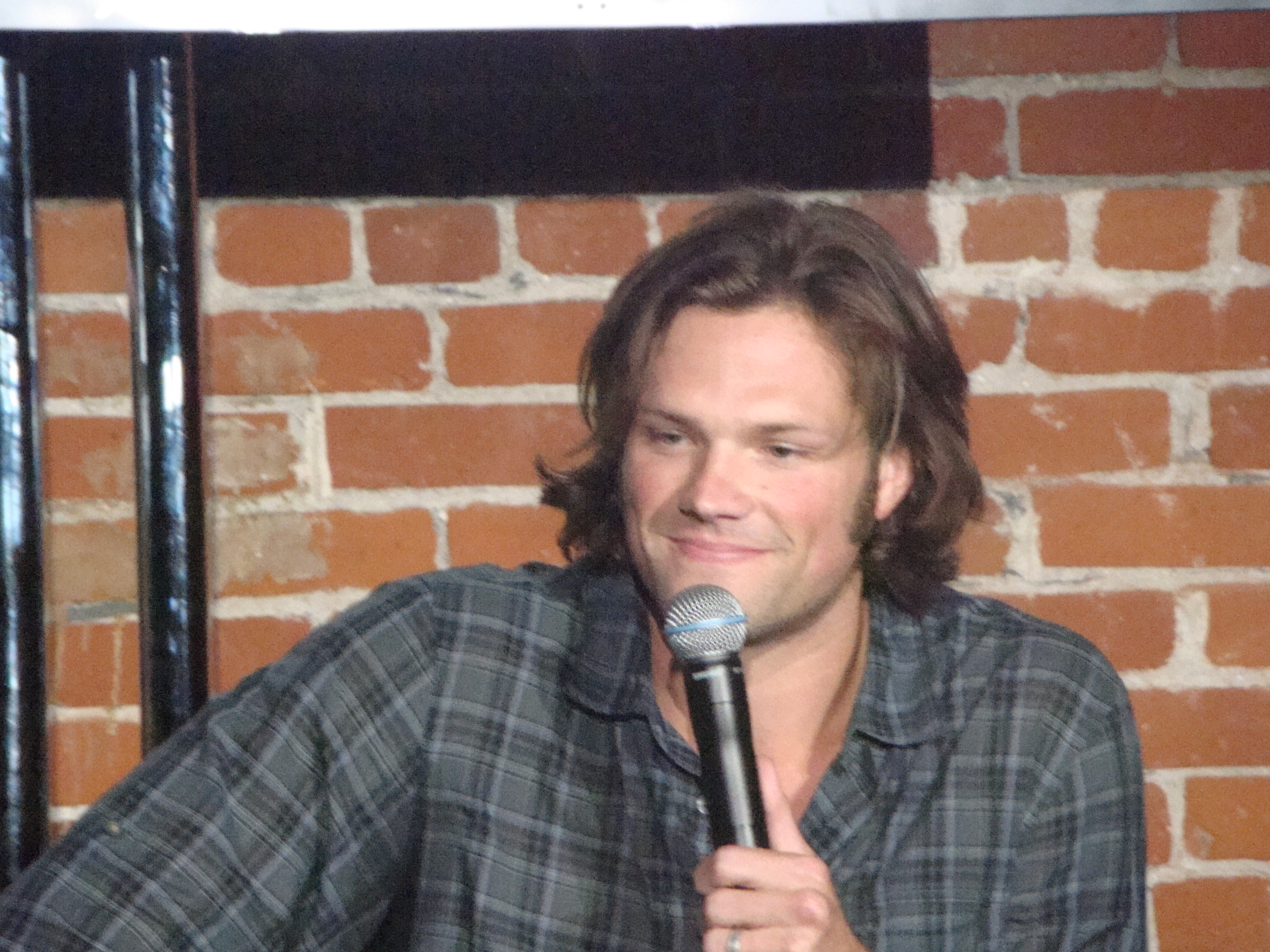 Jared Padalecki